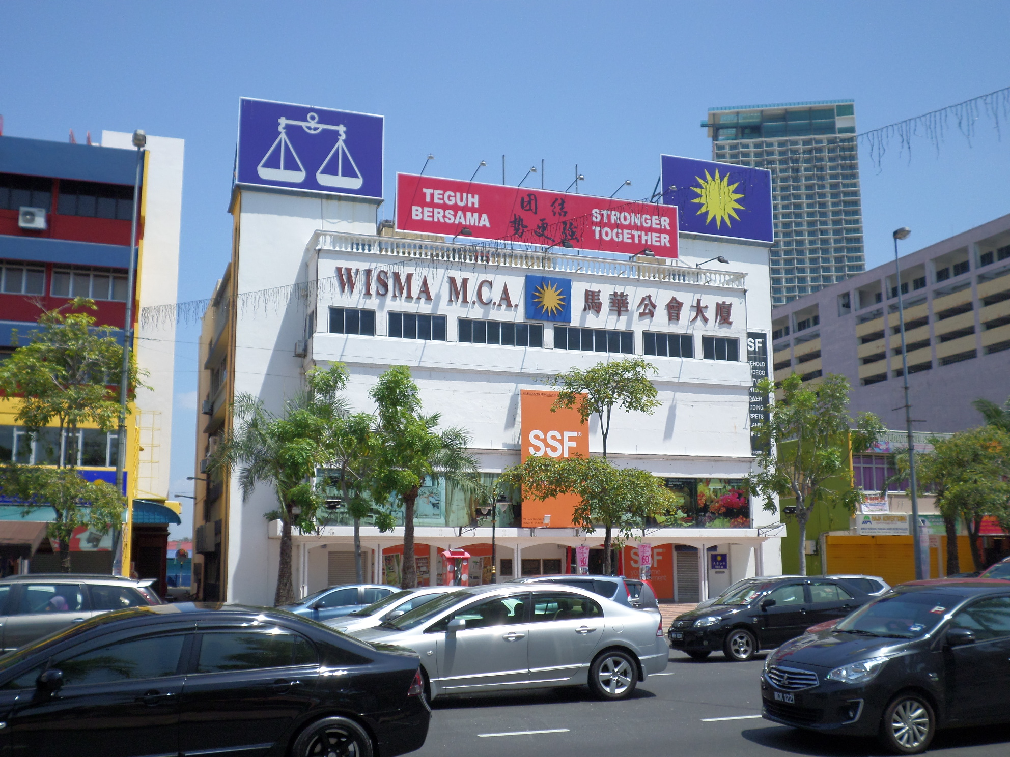 Malaysian Chinese Association, Melaka City, Central Melaka, Melaka, MalaysiaBahasa Melayu: Persatuan Cina Malaysia, Bandaraya Melaka, Melaka Tengah, Melaka, Malaysia